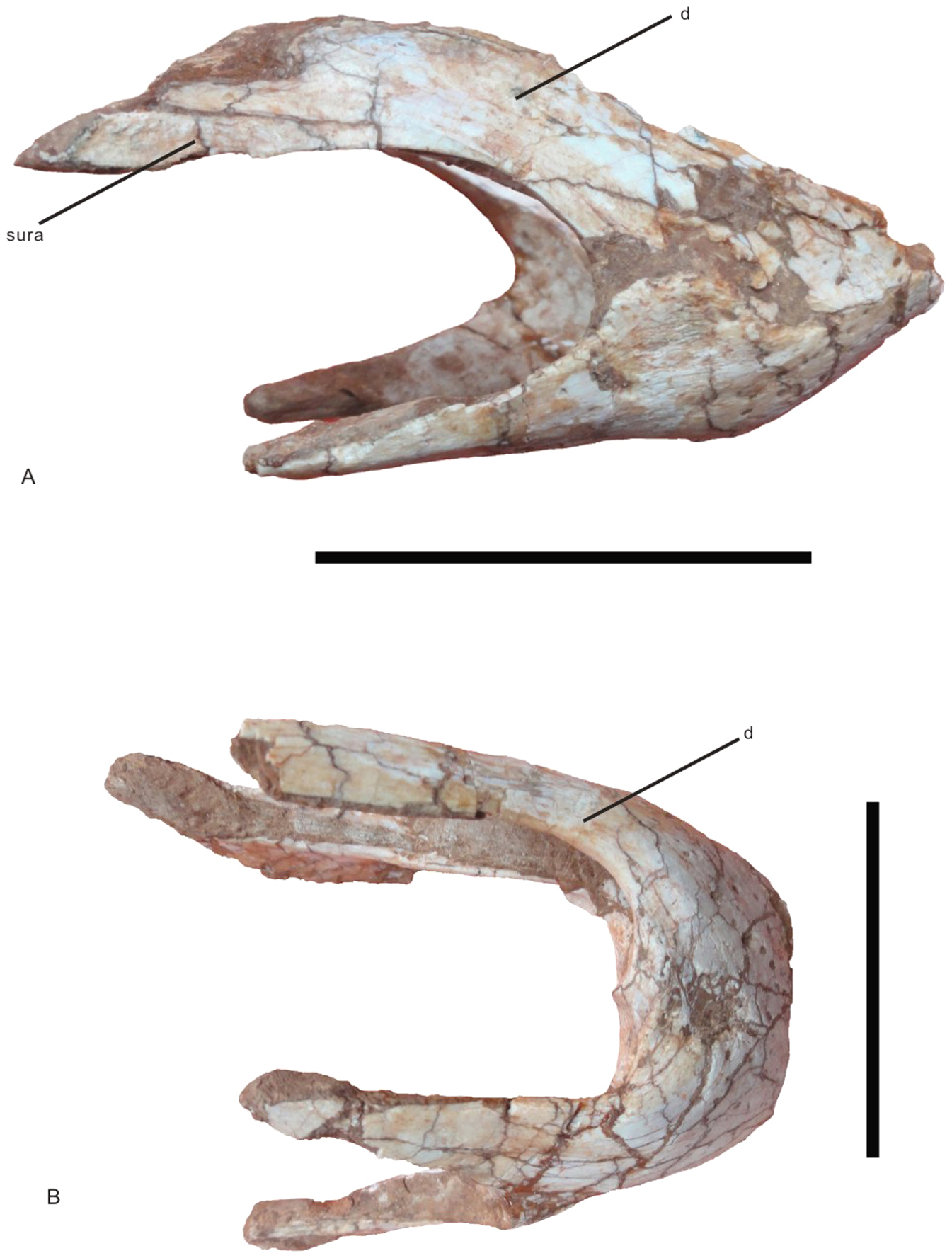 Lower jaw of Nankangia (GMNH F10003) in right lateral (A) and ventral (B) views. Abbreviations: d., dentary; sura., surangular. Scale bars = 5 cm.